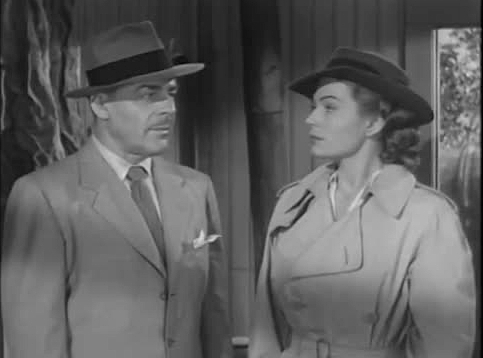 Screenshot of Americans actors Brian Donlevy and Kristine Miller in the Dangerous Assignment episode "The Iron Banner Story" (1952)